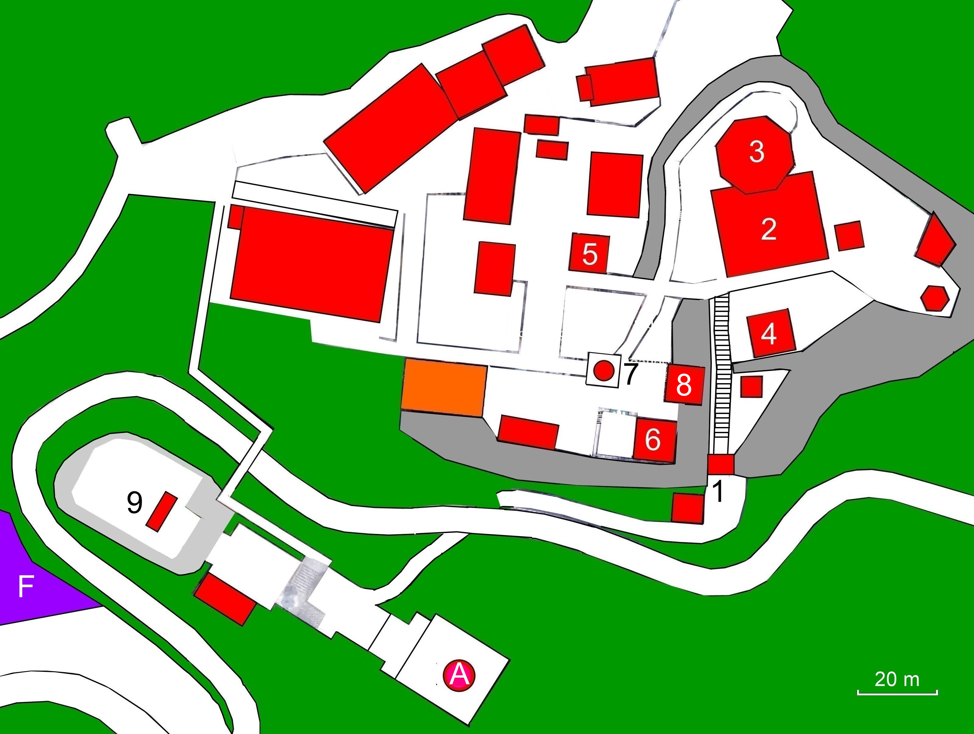 Layout of Tsubosaka-dera, Nra prefecture, Japan